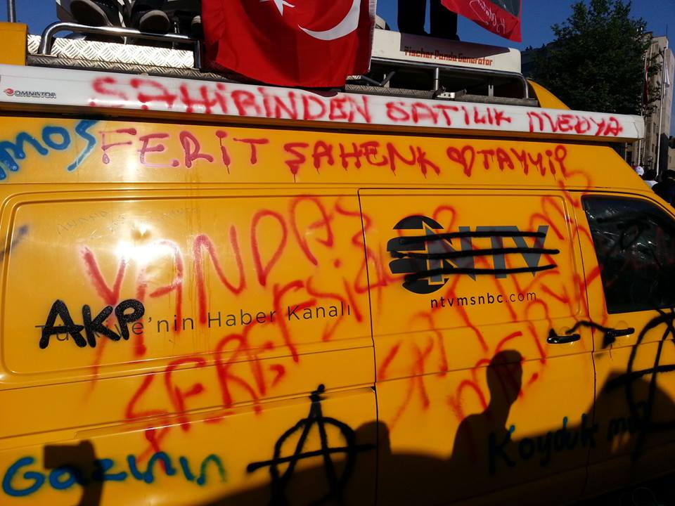 NTV live broadcasting van protested by the protesters in Istanbul on June 1st for not televising the protests but taking the side of the suppressive Tayyip Erdogan's government. "For sale from the owner" "Ferit Sahenk (owner of NTV) loves Tayyip (Tayyip Erdogan, Prime Minister of Turkey)" "Honor-less" "Media for sale"